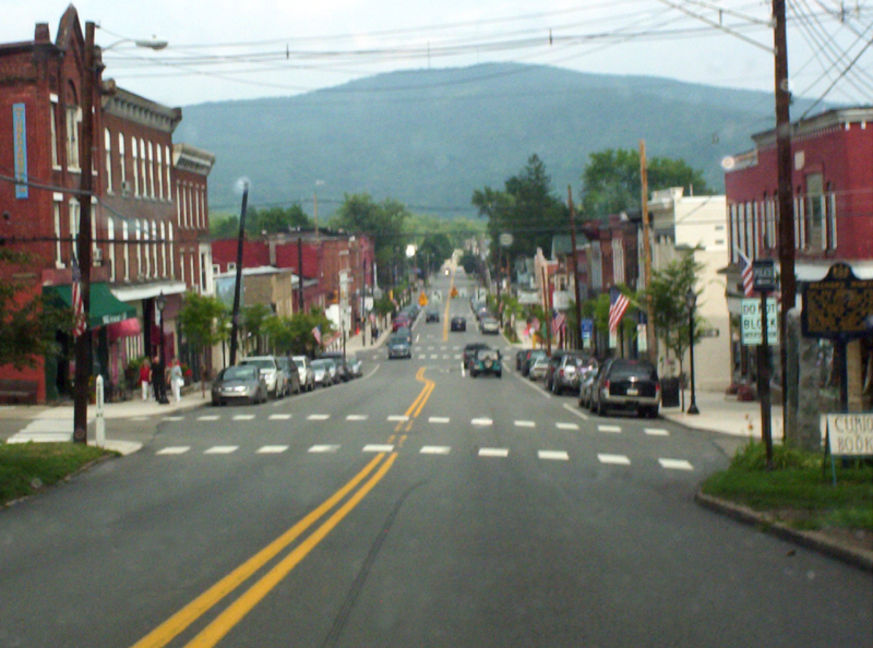 Photograph taken by Michael J on 28 July 2007.